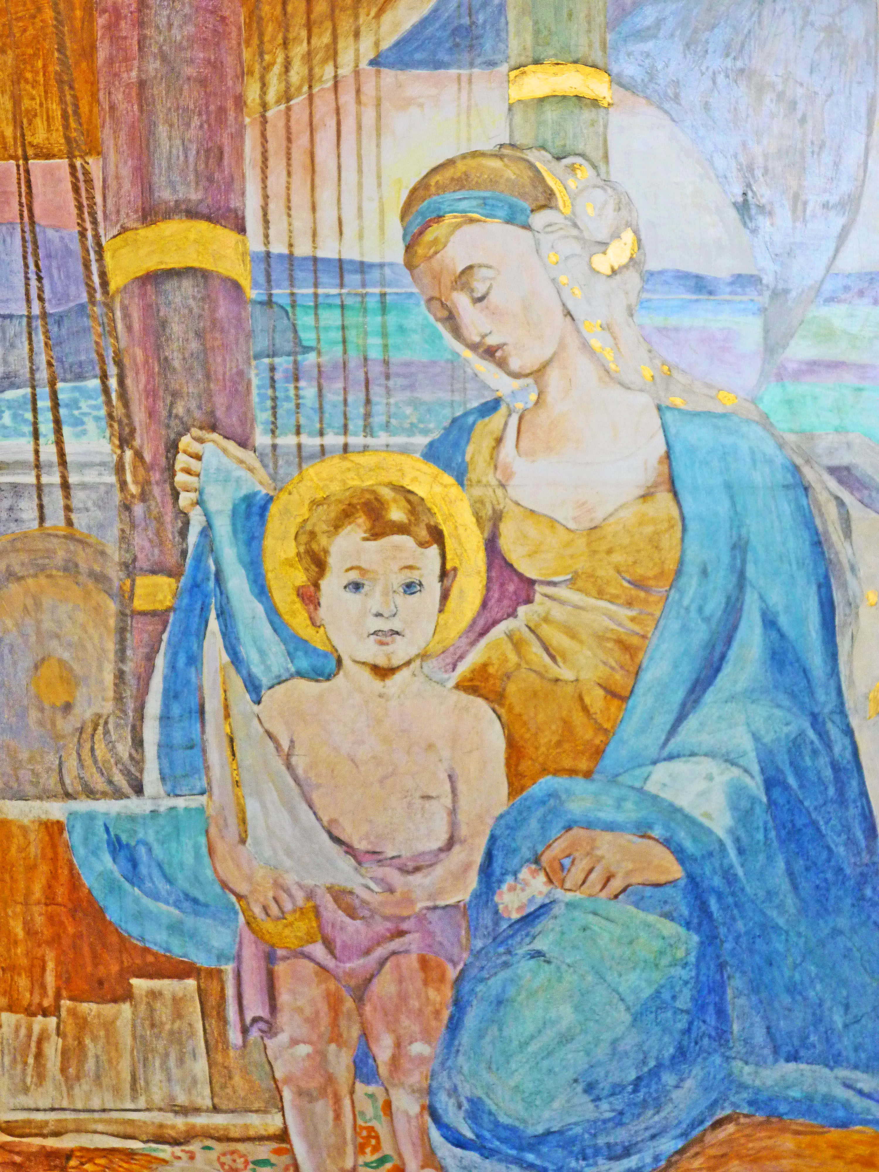 St James Church, Sydney - Mural detail in Children's Chapel